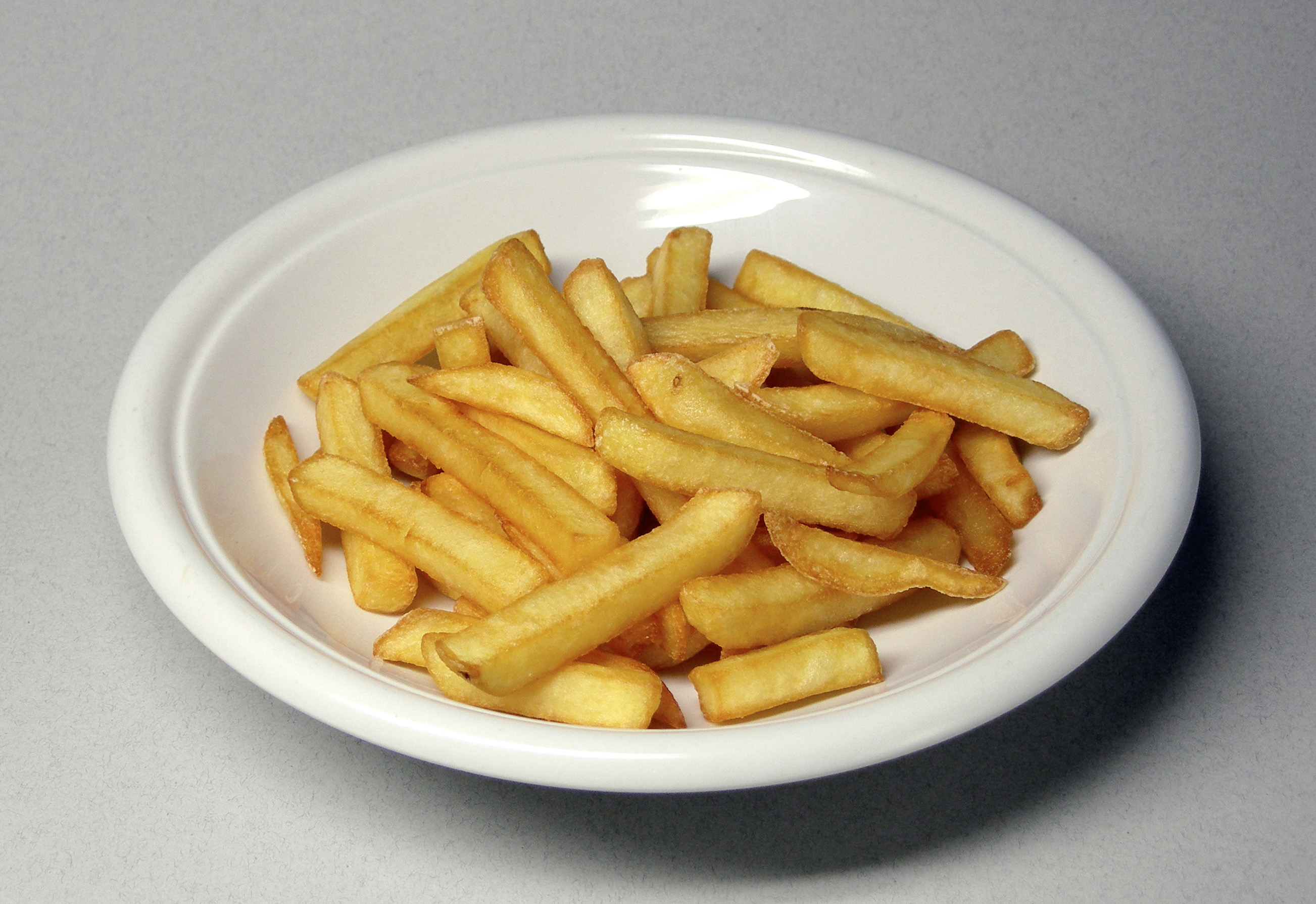 Chips (BE), French fries (AE), French fried potatoes (AE)